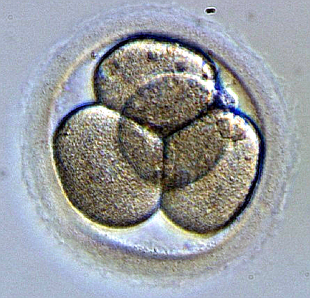 4-cell human embryo (2nd day of development).